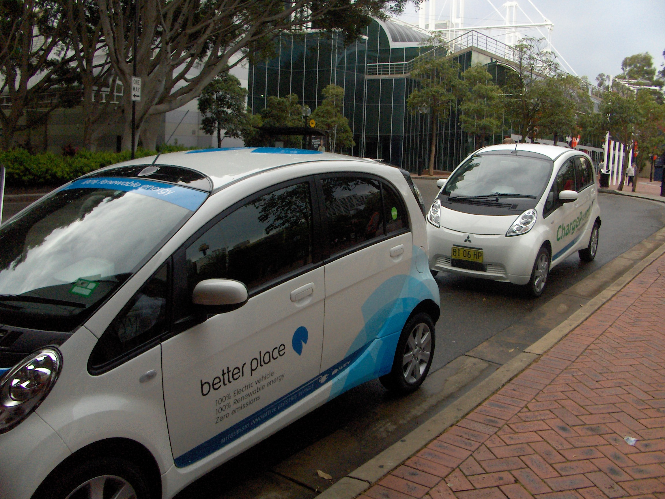 2 Mitsubishi i MiEVs in Sydney outside the 2010 AIMS.